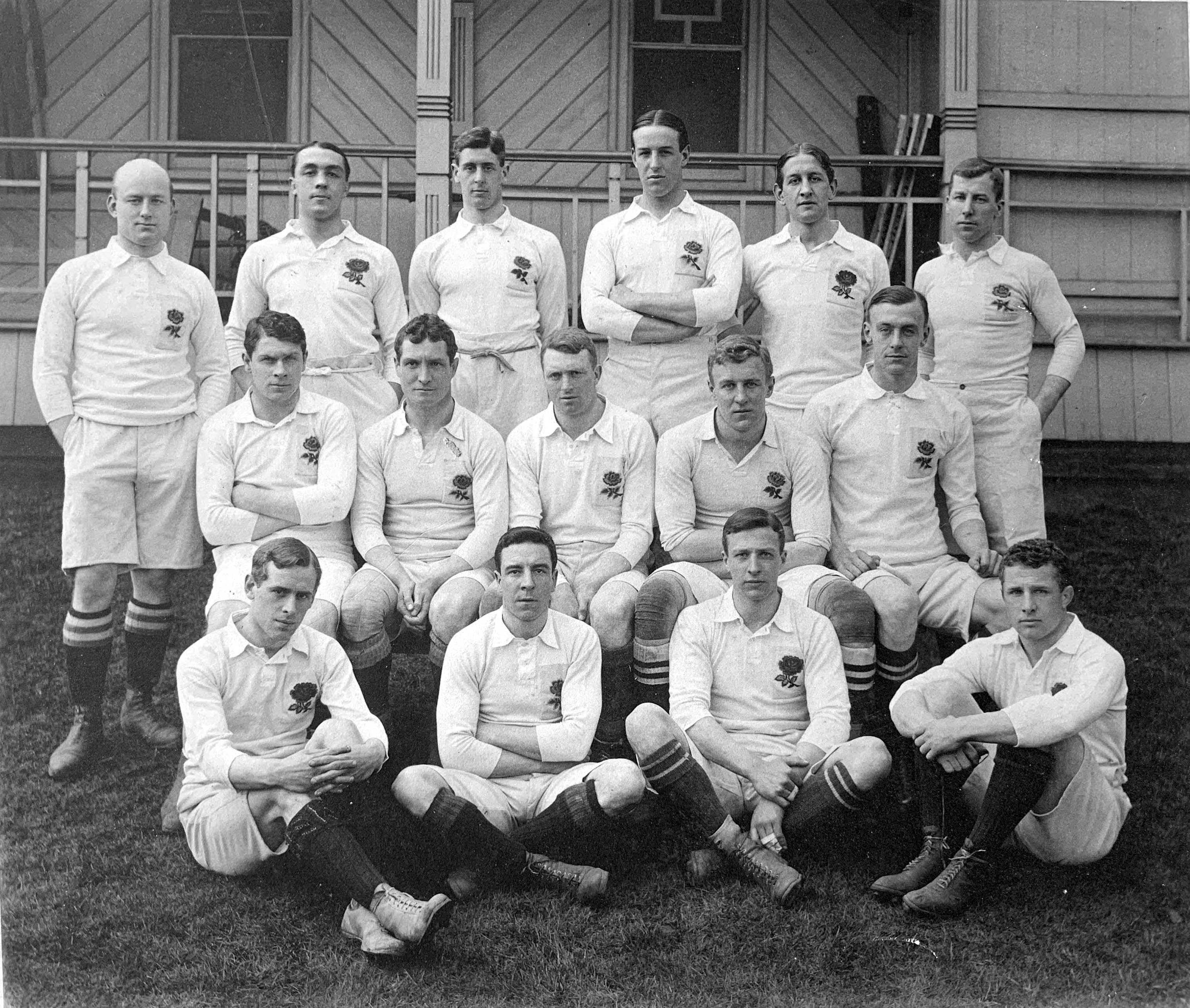 Rugby union team of England that played Scotland at Richmond Athletic Ground. Players are, fltr: (up): T A Gibson, C J Newbold, A T Brettargh, J G Milton, S H Osborne, S F Coopper; (middle): J T Tayor, J L Mathias, F M Stout (captain), V H Cartwright, J E Raphael; (lower): T Simpson, W V Butcher, A D Stoop, C E L Hammond.